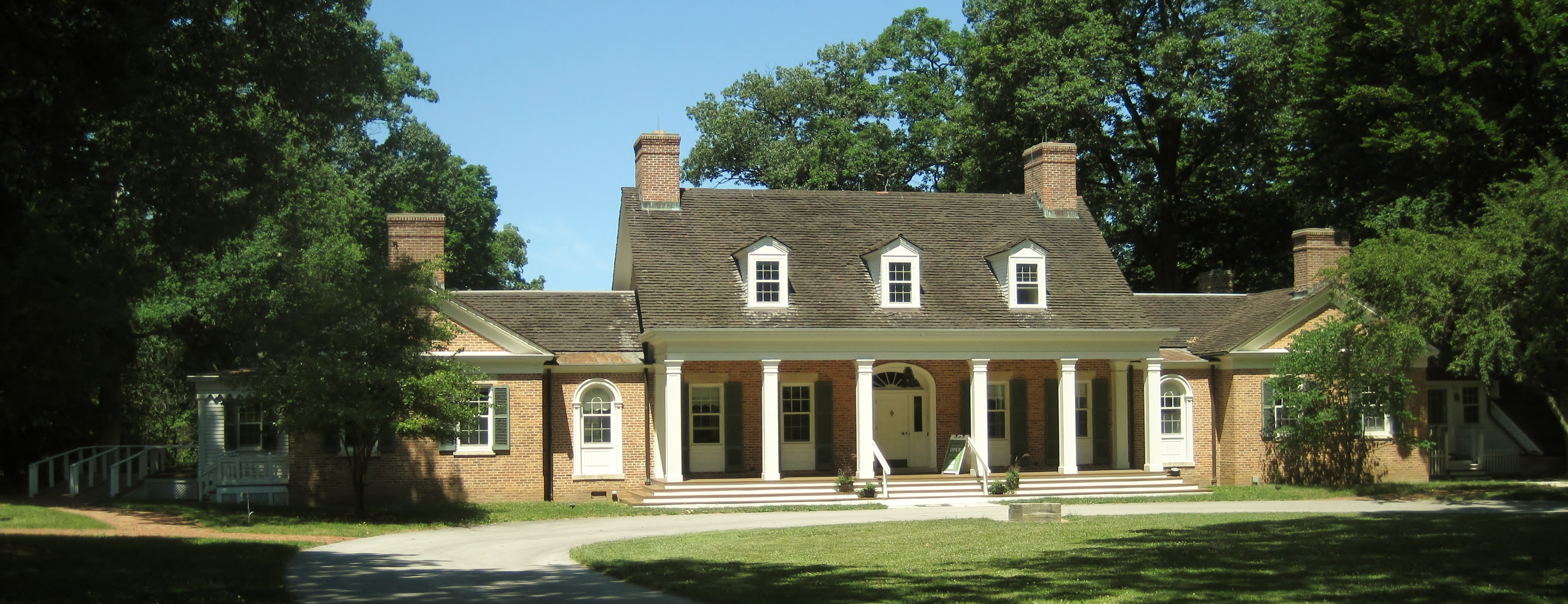 Edward L. Ryerson Country House in the Edward L. Ryerson Area Historic District near Deerfield, IL